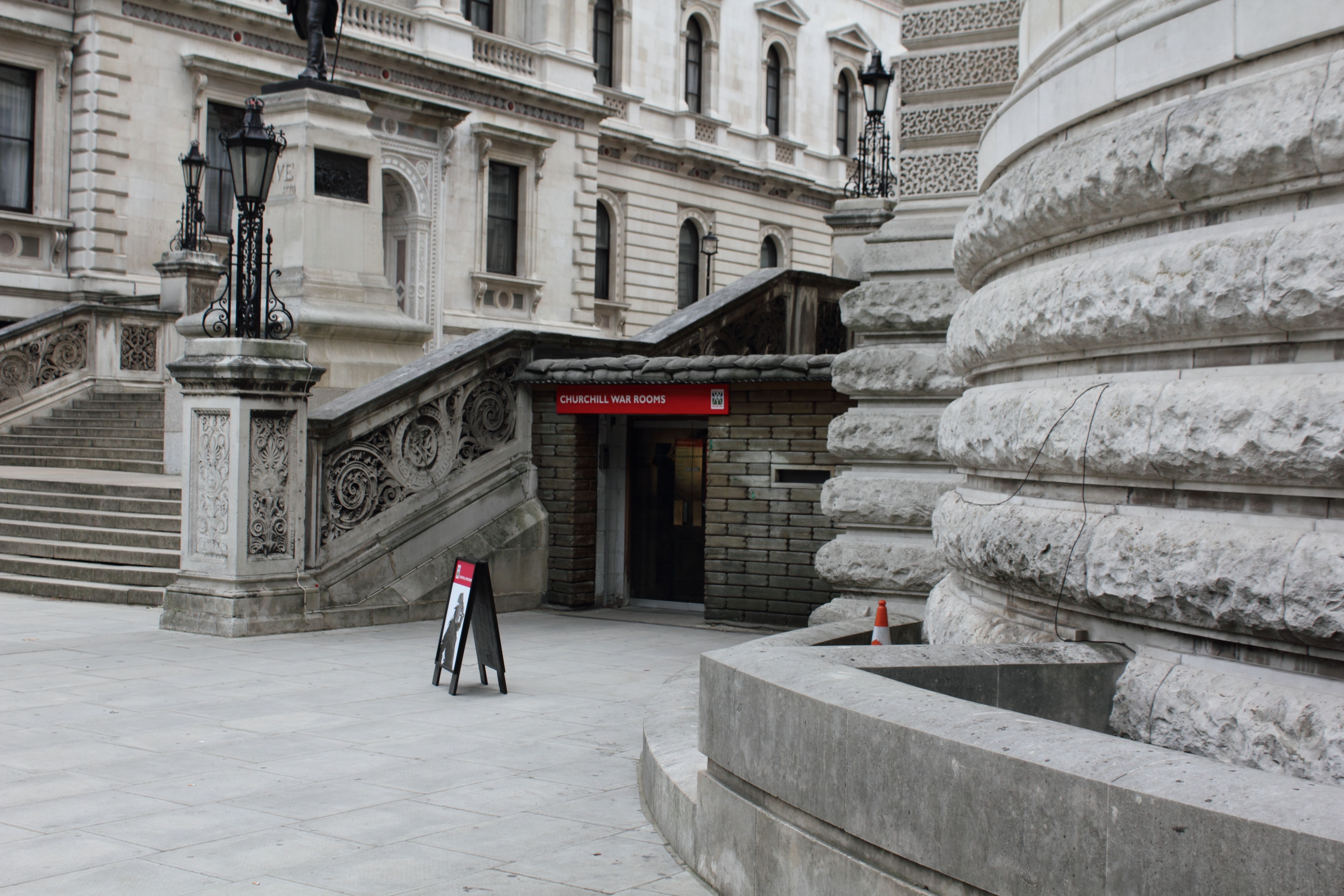 Churchill War Rooms formerly known as Cabinet War Rooms